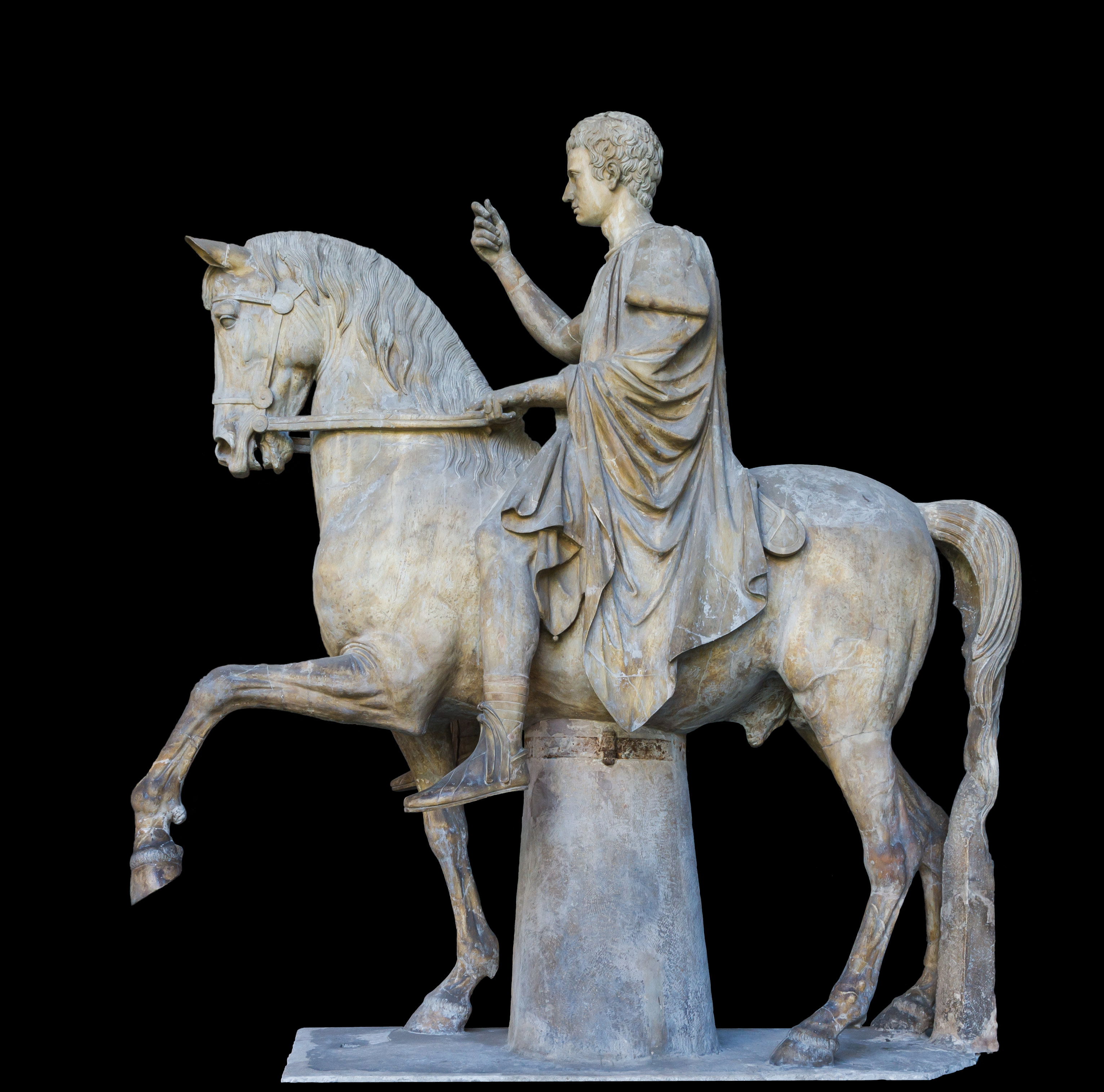 Equestrian statue of Marcus Nonius Balbus the Younger, donated by the inhabitants of Nuceria, from Herculanum forum. Marble, ca. 50 CE